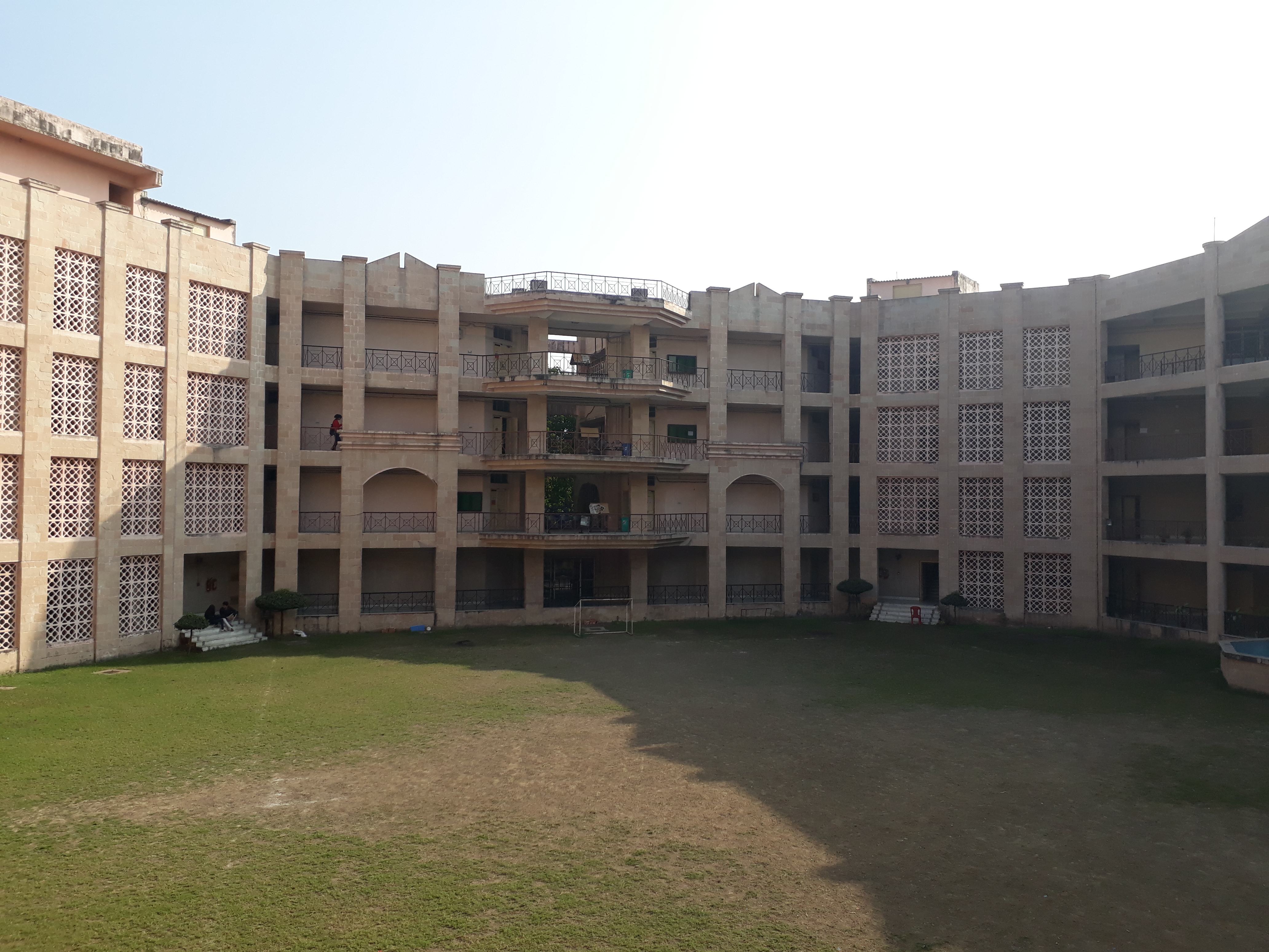 Inside the NUJS building, Kolkata